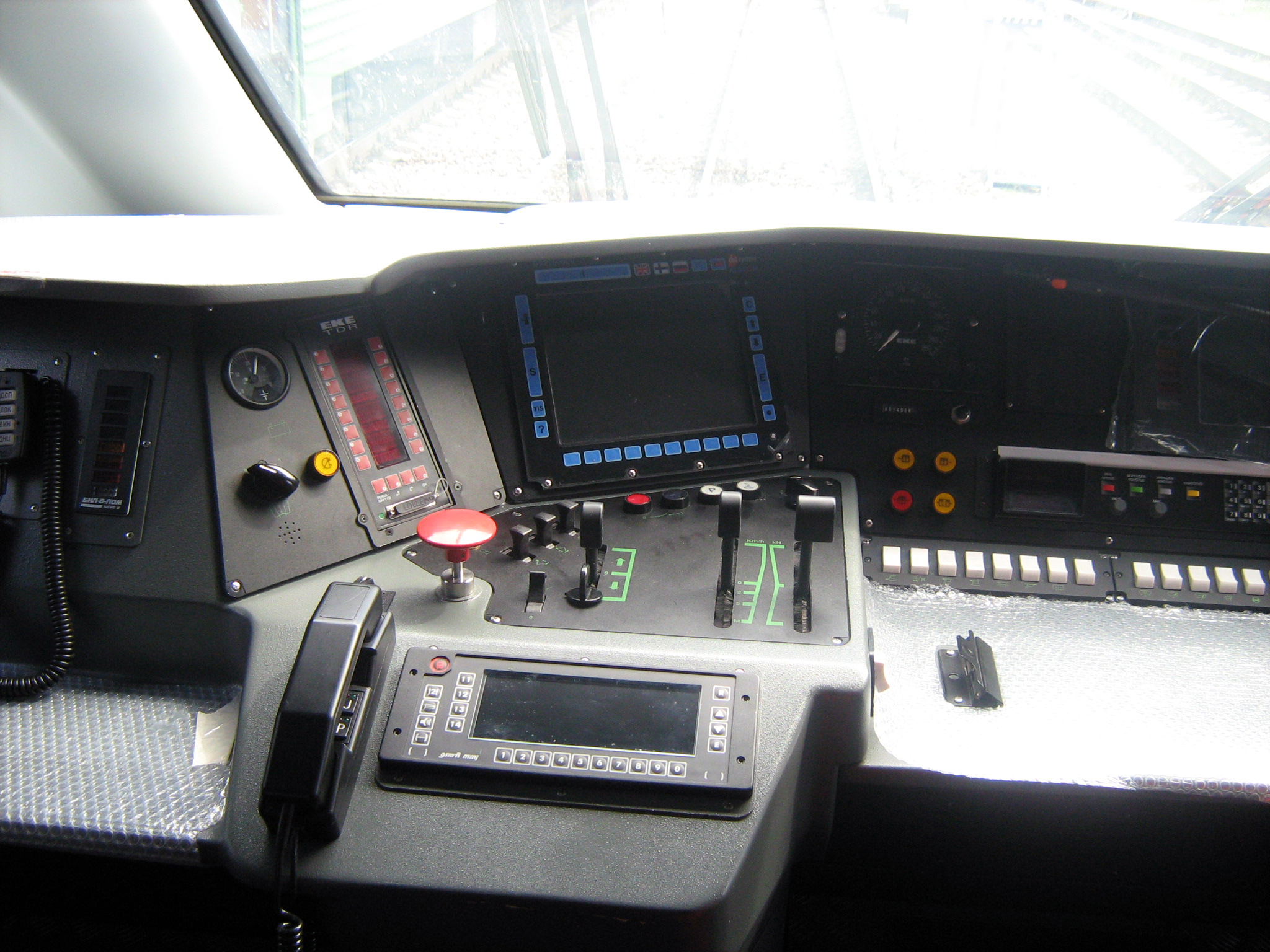 Cockpit of a Karelian Trains Class Sm6 (Allegro) train